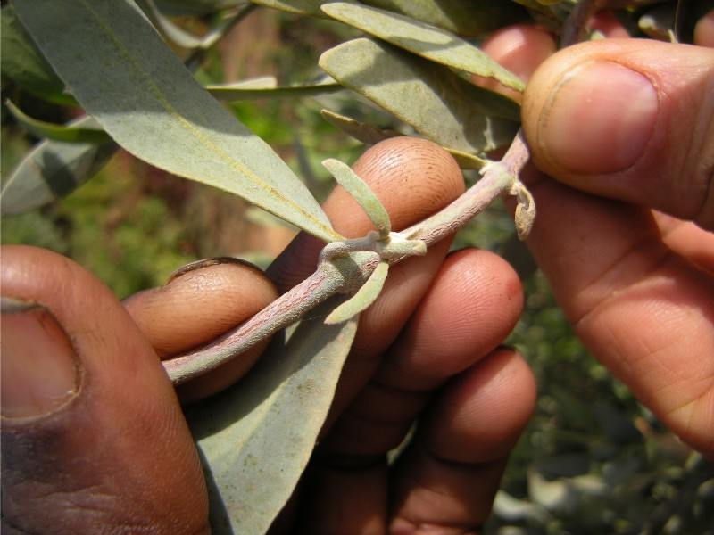 dormant female flower of jojoba